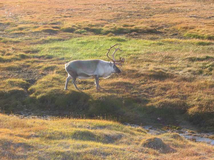 Svalbard reindeer in center of Longyearbyen, Svalbard